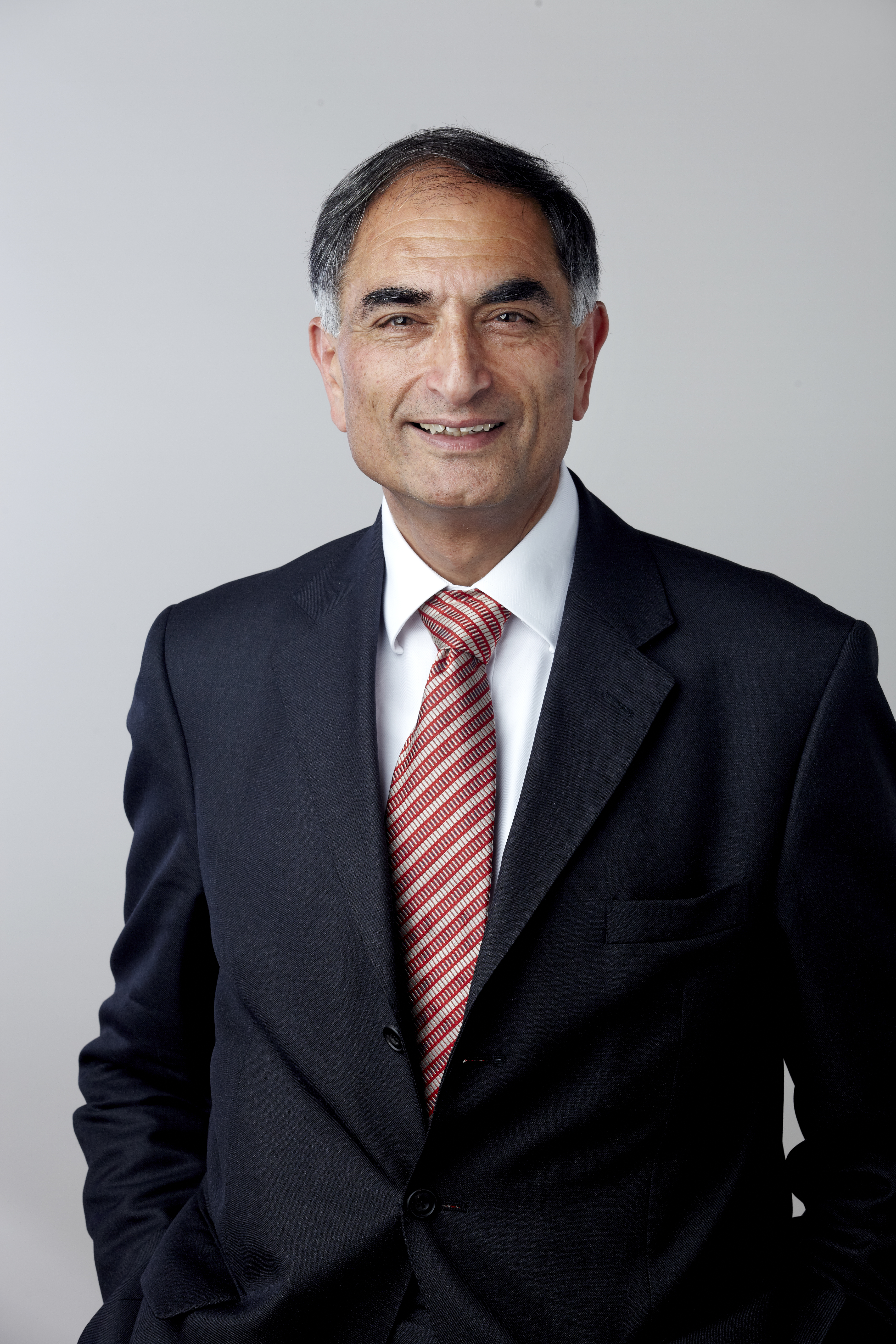 Professor Rajesh Thakker FMedSci FRS, Royal Society Fellow elected 2014 Attribution: The Royal Society